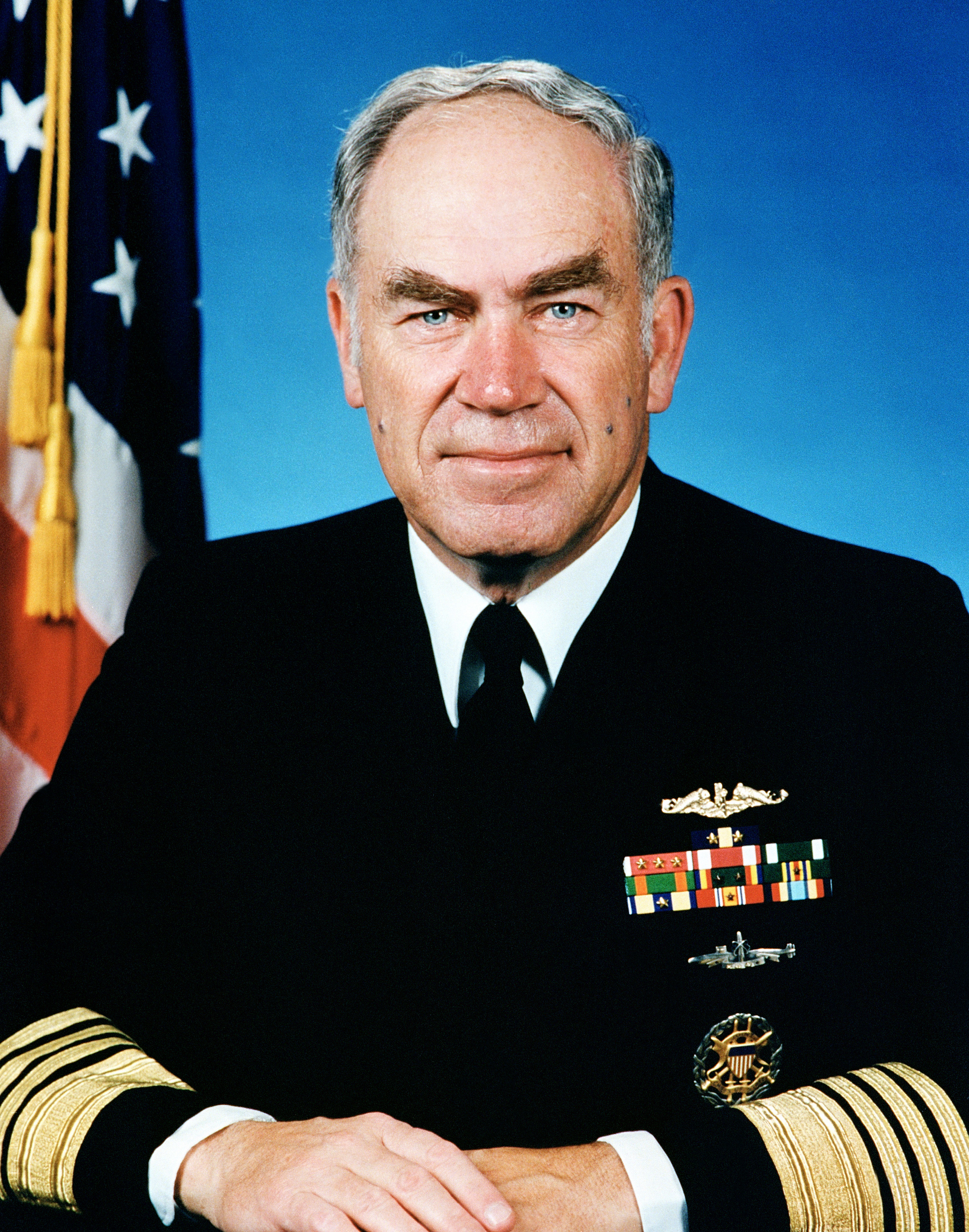 Frank Kelso, former Chief of Naval Operations.